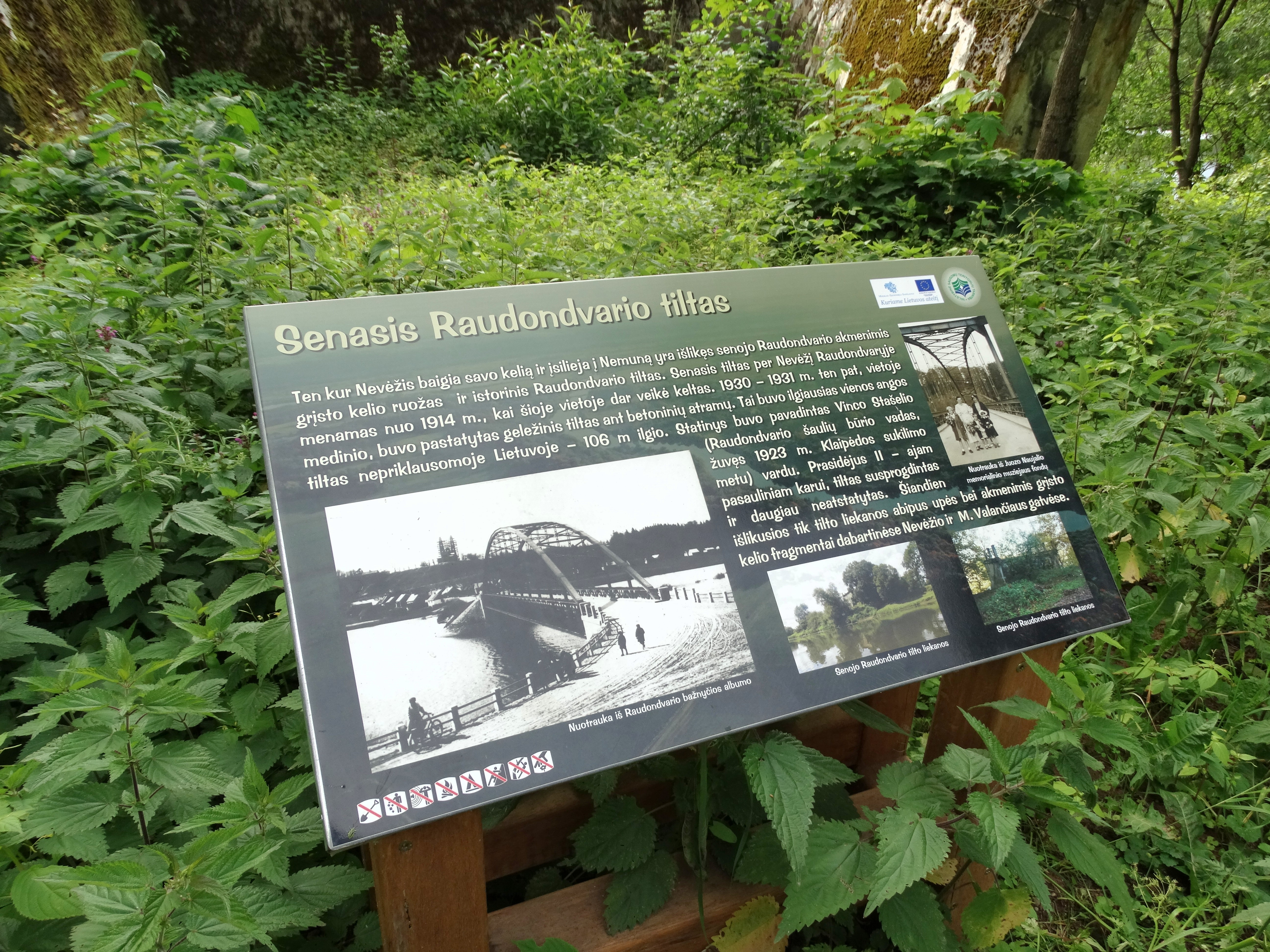 Commemorative plaque to former Raudondvaris bridge, Kaunas, Lithuania